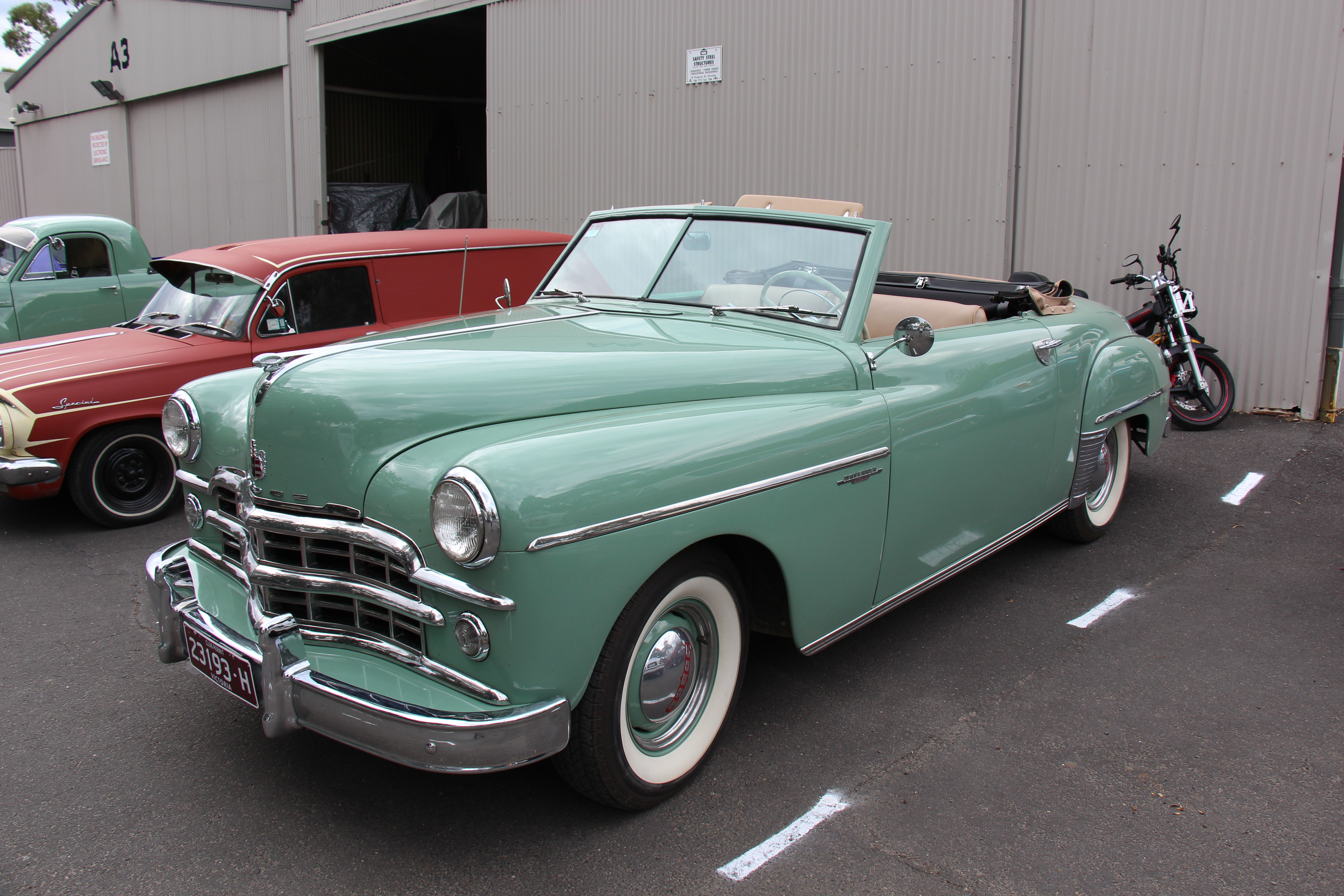 The first major postwar model change for Dodge inaugurated 3 new series on 2 wheelbases: the Wayfarer (1949-52), Meadow-brook (1949-54), and Coronet (1949-76). New improvements were the combination starter-ignition switch, sea-leg shock absorbers, and Gyro-Matic semiautomatic transmission. Engine; 230 cu in flat head 6